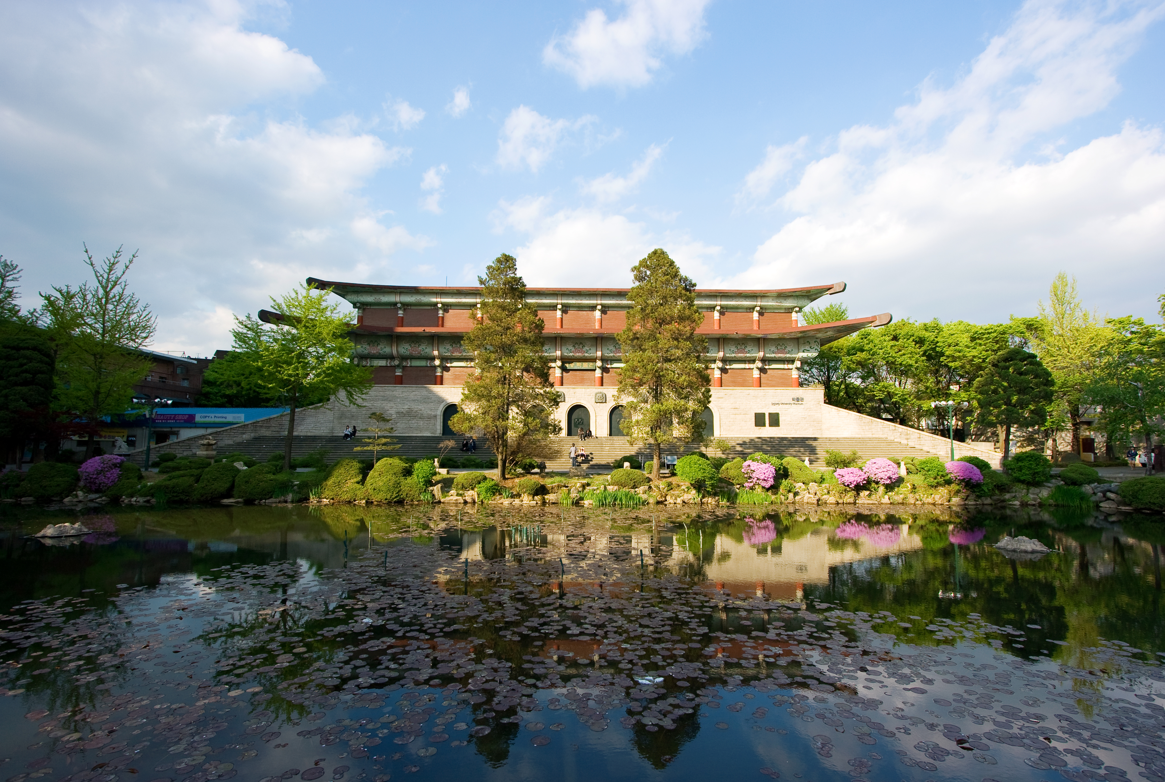 Sejong Museum (Front)